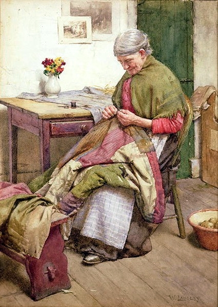 The Old Quilt